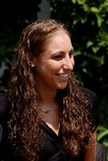 American basketballer Diana Taurasi, last of the Phoenix Mercury of the WNBA and a collegian at the University of Connecticut, at the White House in 2008.